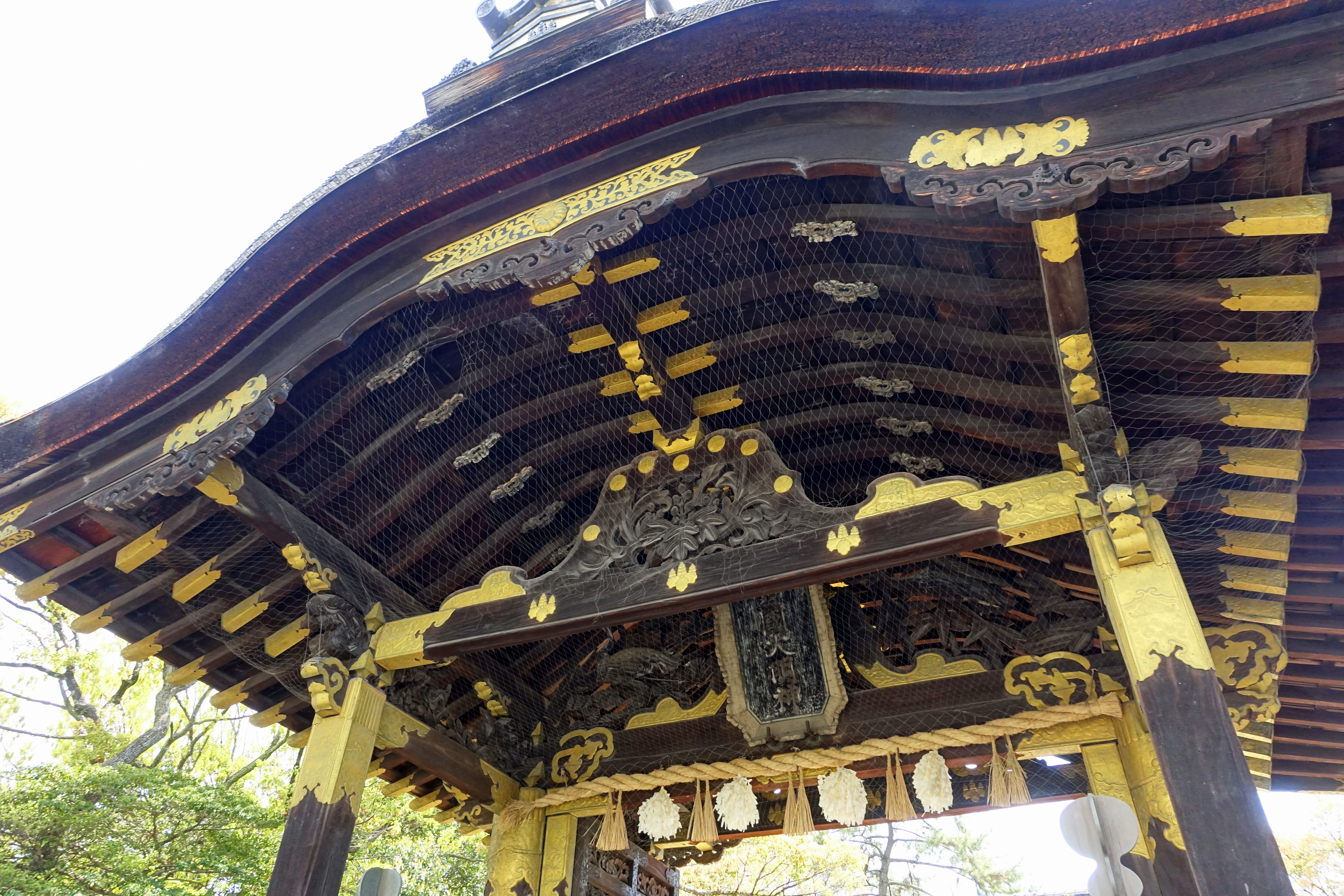 Karamon, Toyokuni Shrine - Kyoto, Japan.